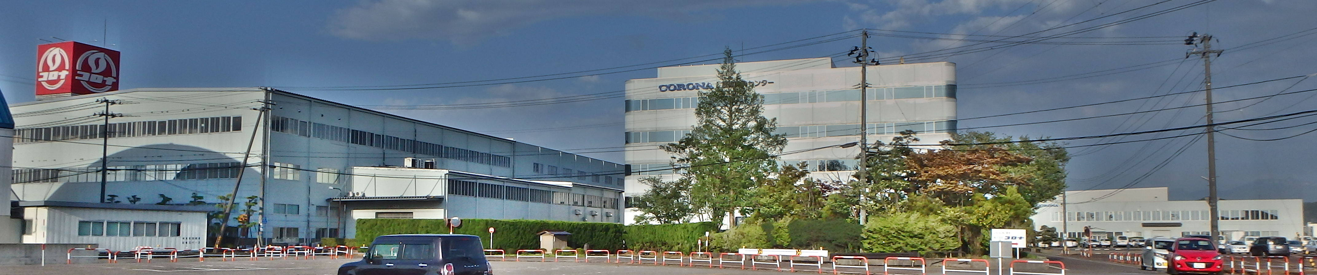 Headquarters of CORONA CORPORATION,Niigata prefecture,Japan